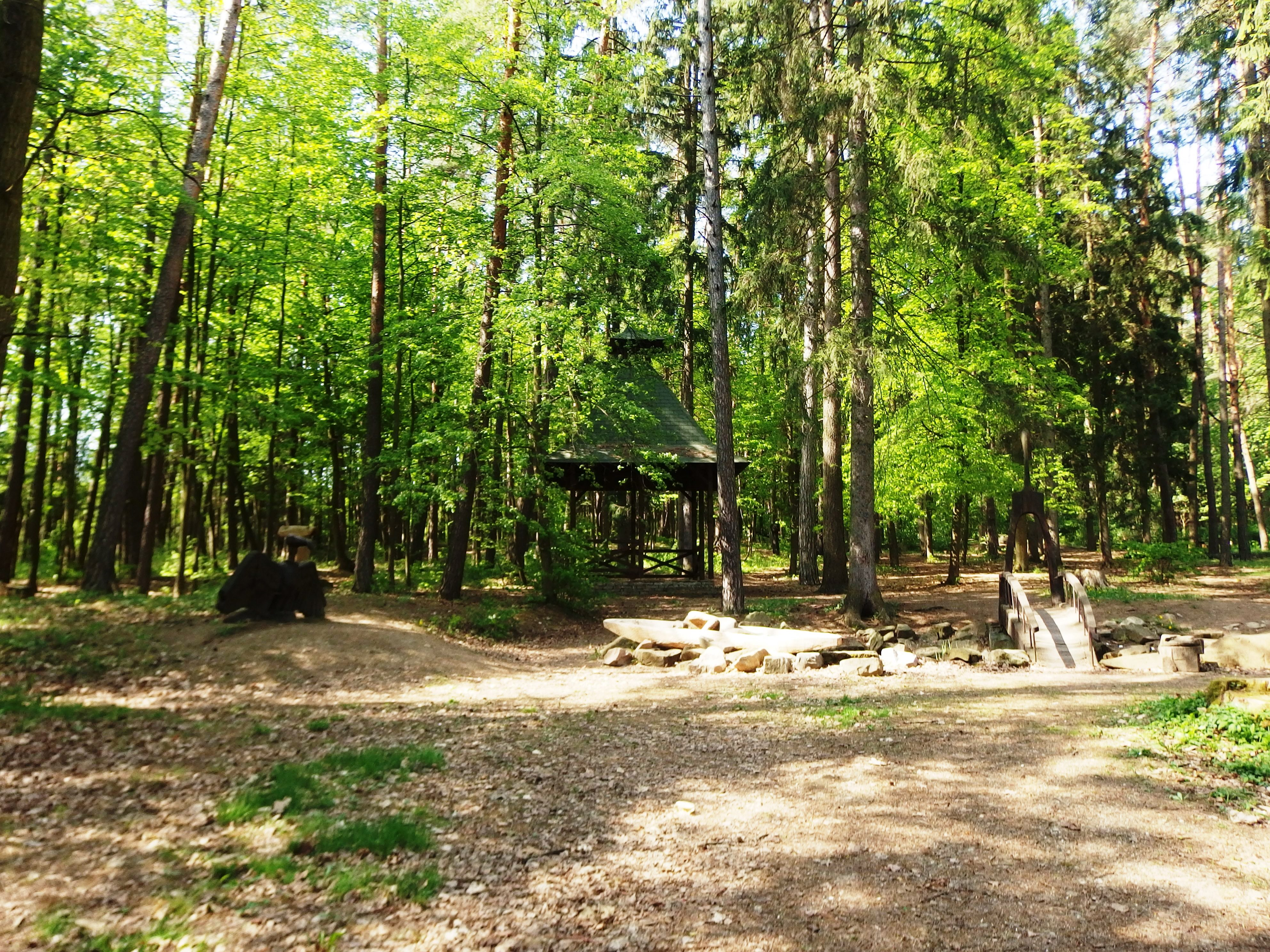 Slavičín, Zlín District, Czech Republic.